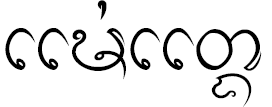 Lanna script – Mae Taeng is a district (amphoe) in the northern part of Chiang Mai Province in northern Thailand.